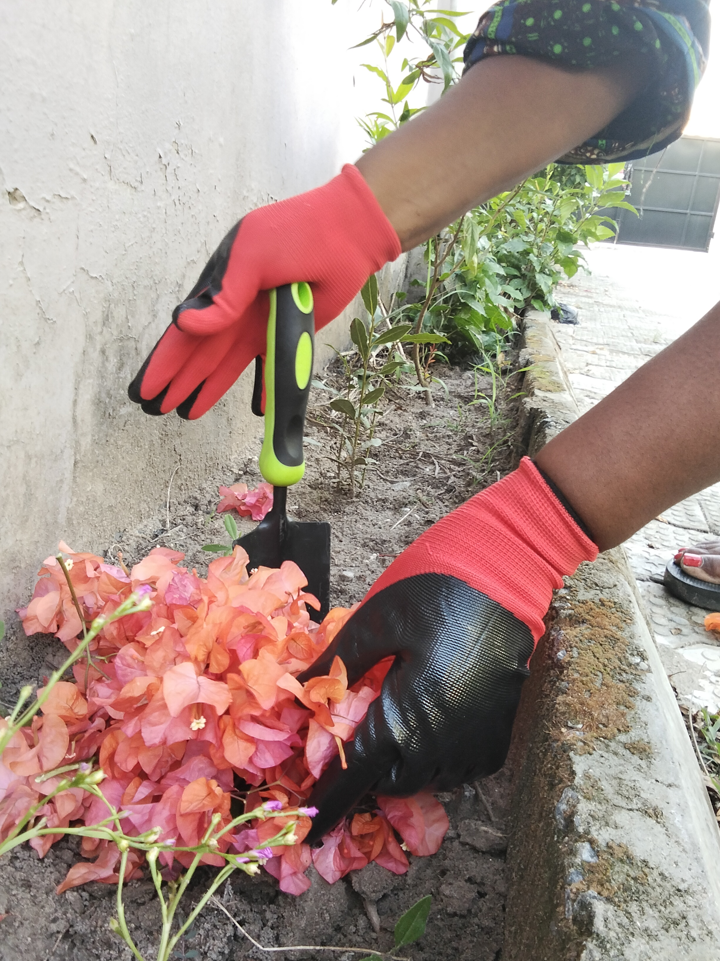 Hans Isaksson, "Gloves", 2014 at Björkholmen Gallery, Stockholm, Sweden